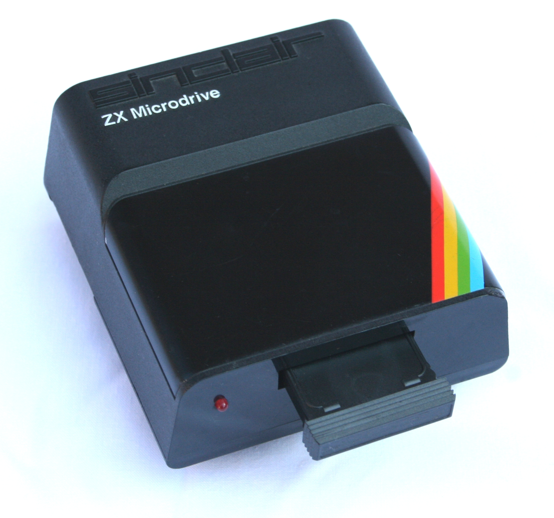 ZX Microdrive with cartridge inserted.